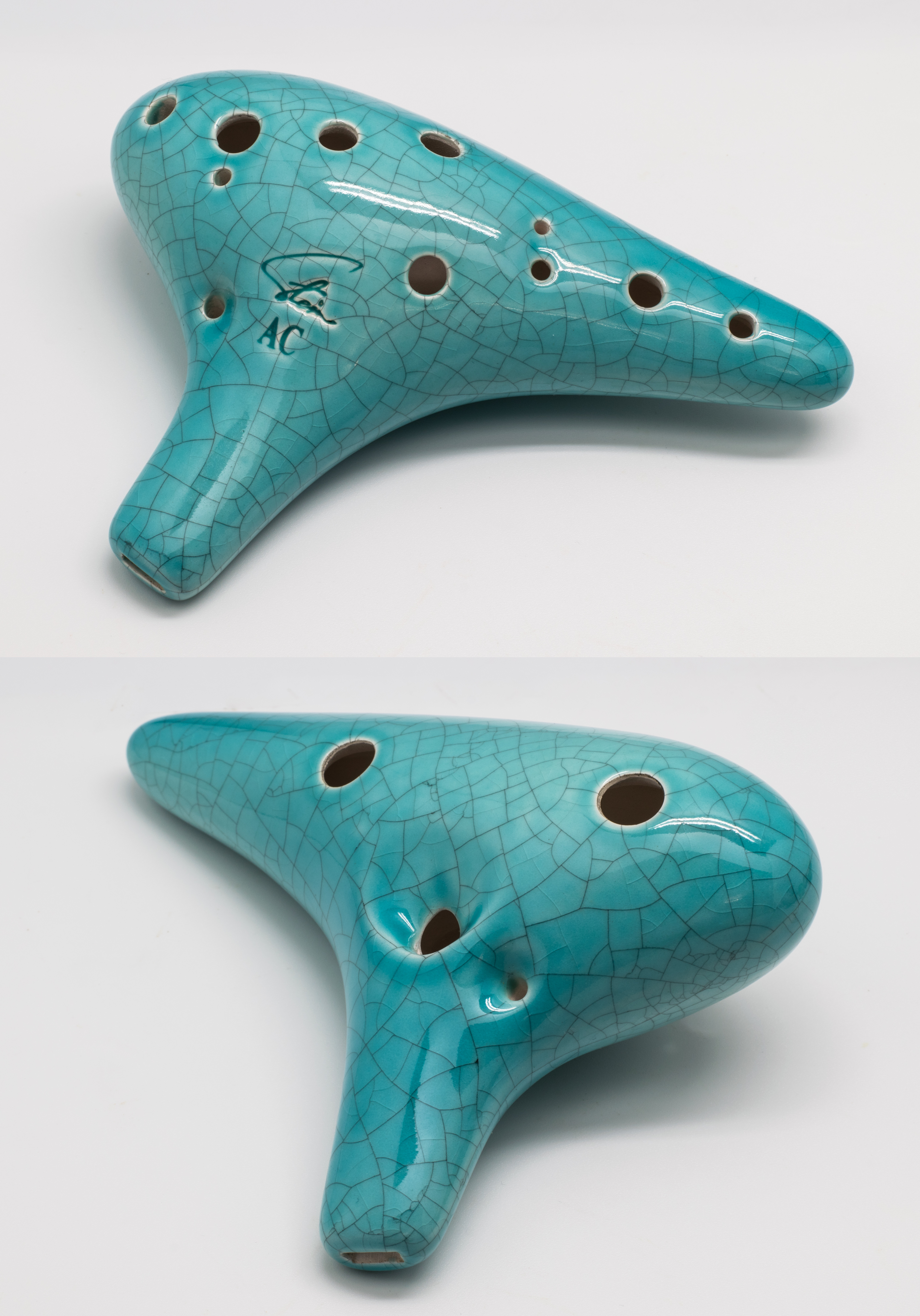 A 12 hole Ocarina